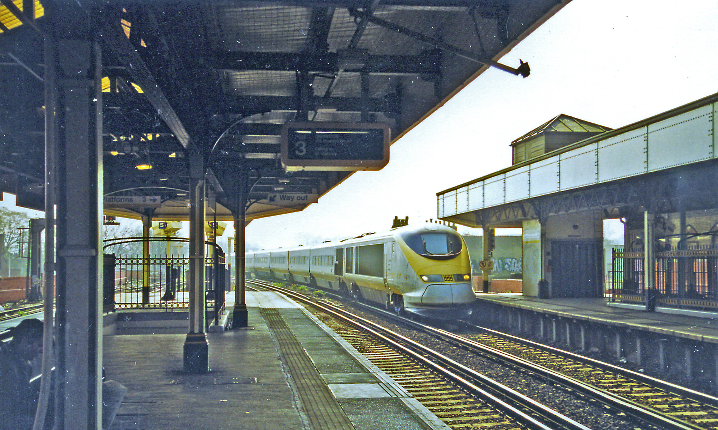 Eurostar train to Waterloo passing Herne Hill. View SE from the Up Main platform, catching a Eurostar International High Speed (Class 373) train from Paris (or Brussels), reduced to about 30 mph as it glided over the ordinary tracks from Fawkham Junction on the Kent Coast main line, to reach Waterloo International via the new flyover at Battersea. This route continued until November 2007 when the new high-speed line into St Pancras International was opened.